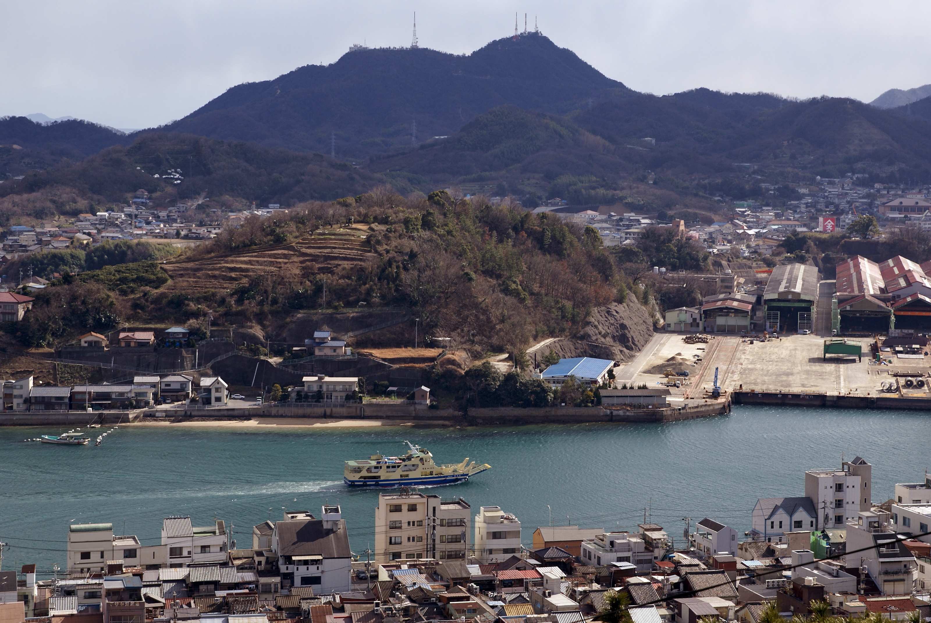 Onomichi Channel in Onomichi, Hiroshima prefecture, Japan